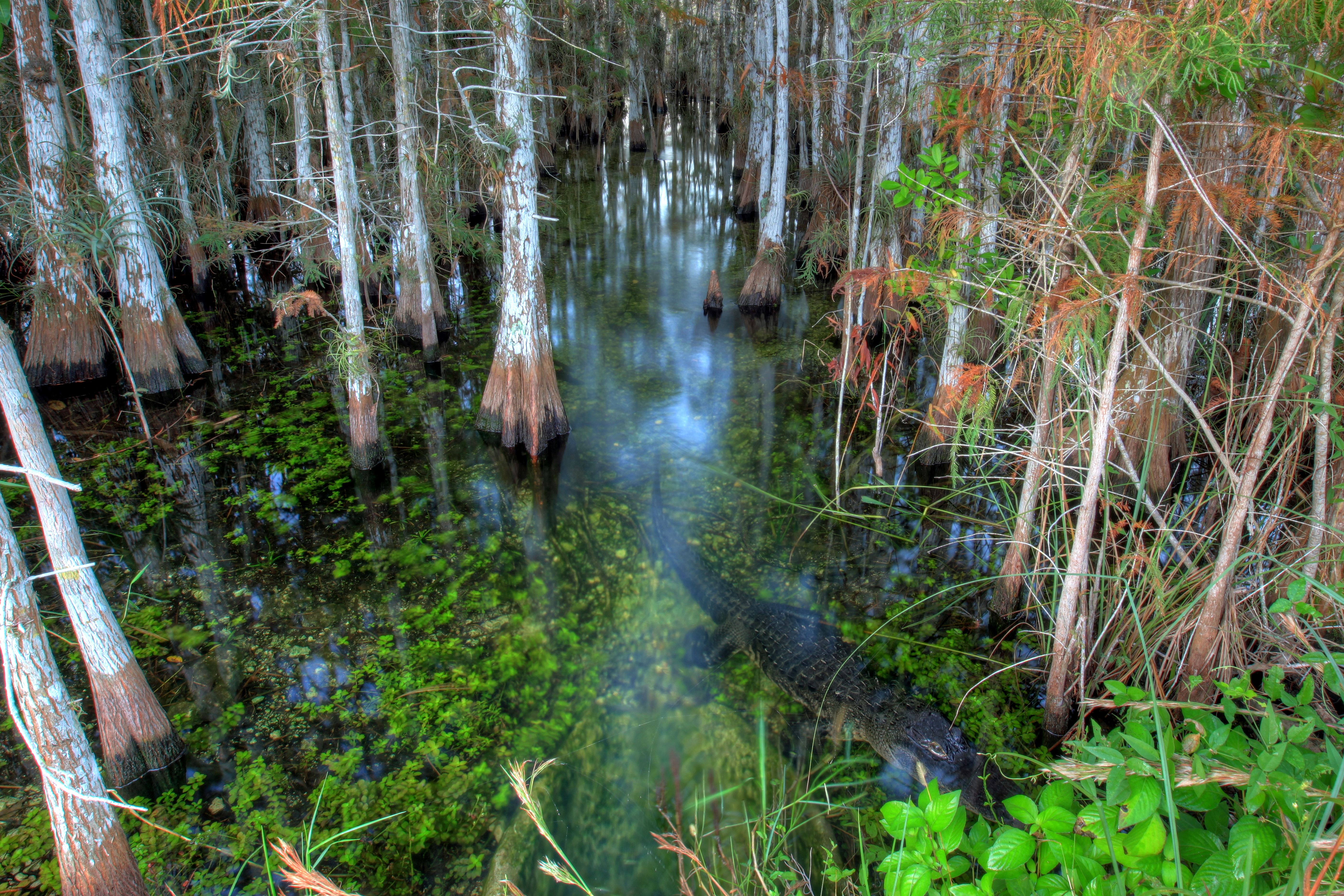 Cypres dome with Alligator, NPSphoto, G.Gardner.jpg